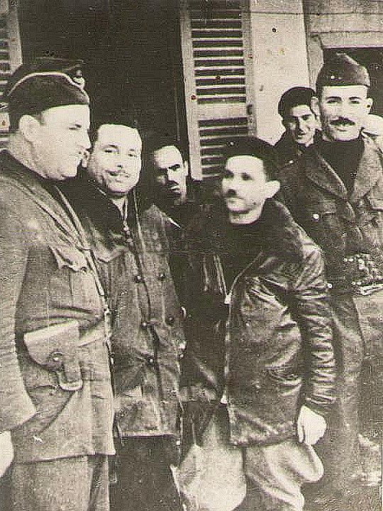 ex SS Si Nacer/Saïd Mohammedi on the left, Ali Mellah, Kechai and Amirouche